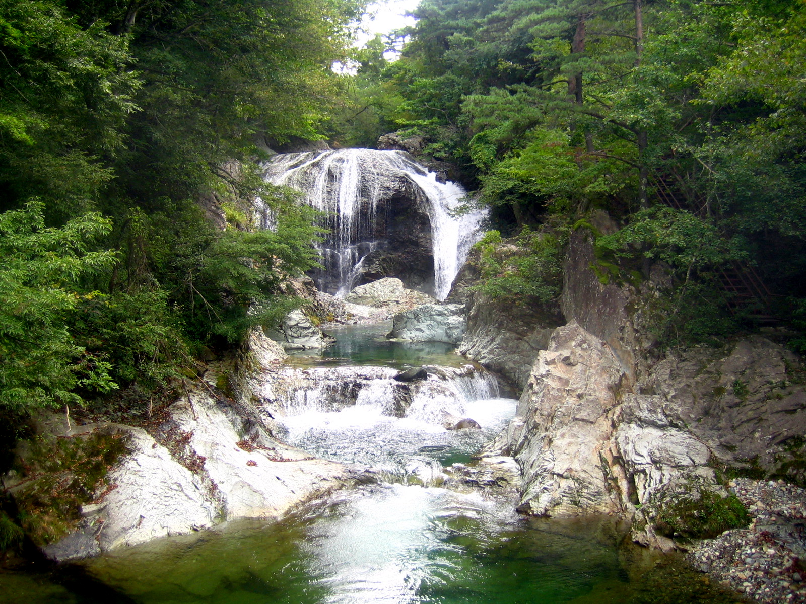 Sekiyama Fall, near to Sekiyama Touge